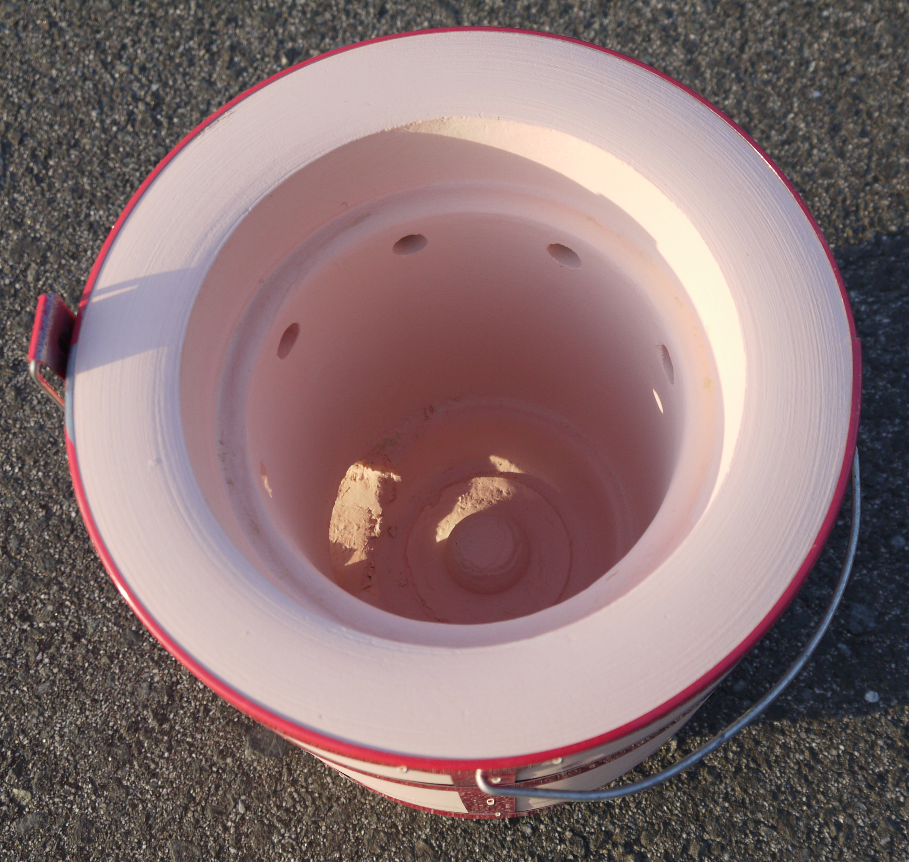 Japanese Rentan Portable Stove